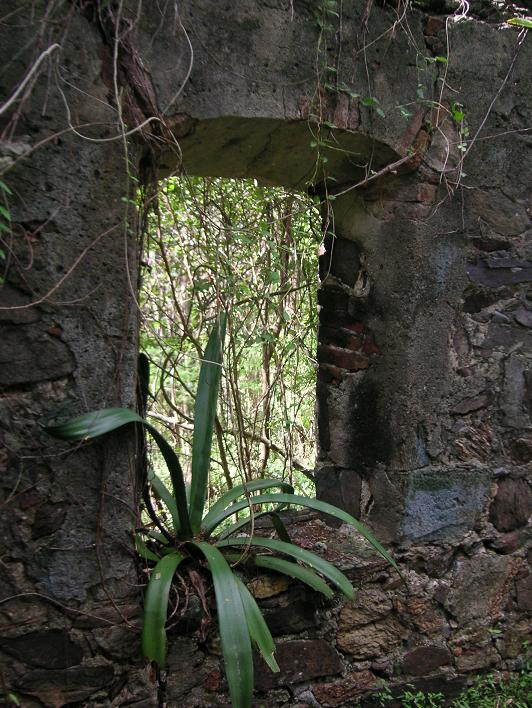 Photograph of the ruin on Great Thatch island, British Virgin Islands